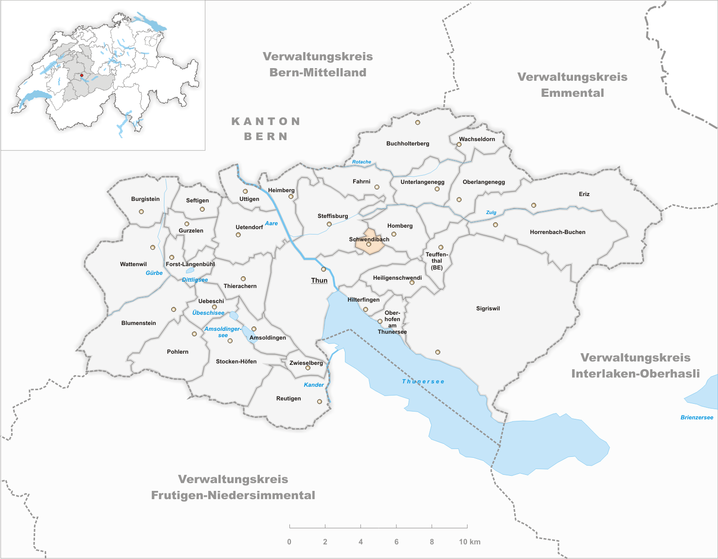 Municipality Schwendibach